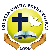 1st Global City in Phnom Penh